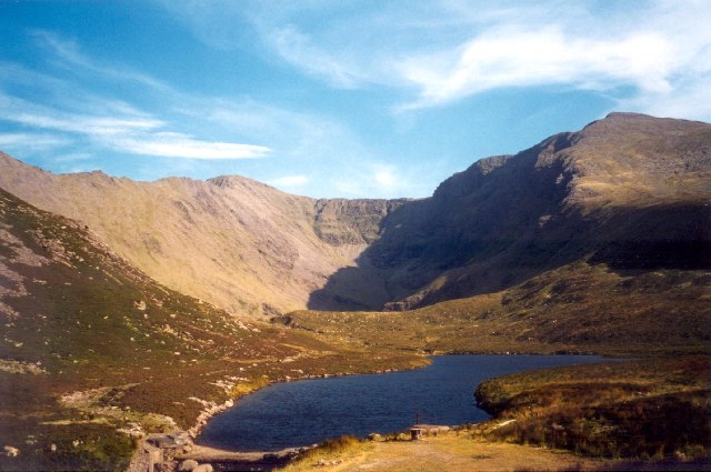 Coomloughta Glen, MacGillycuddy's Reeks. This is taken from between Loch Chom Luachra (behind me) and Loch Íochtair (foreground). The mountain slope to the left is Binn Chaorach; Corrán Tuathail is on the horizon; and Cathair is to the right.